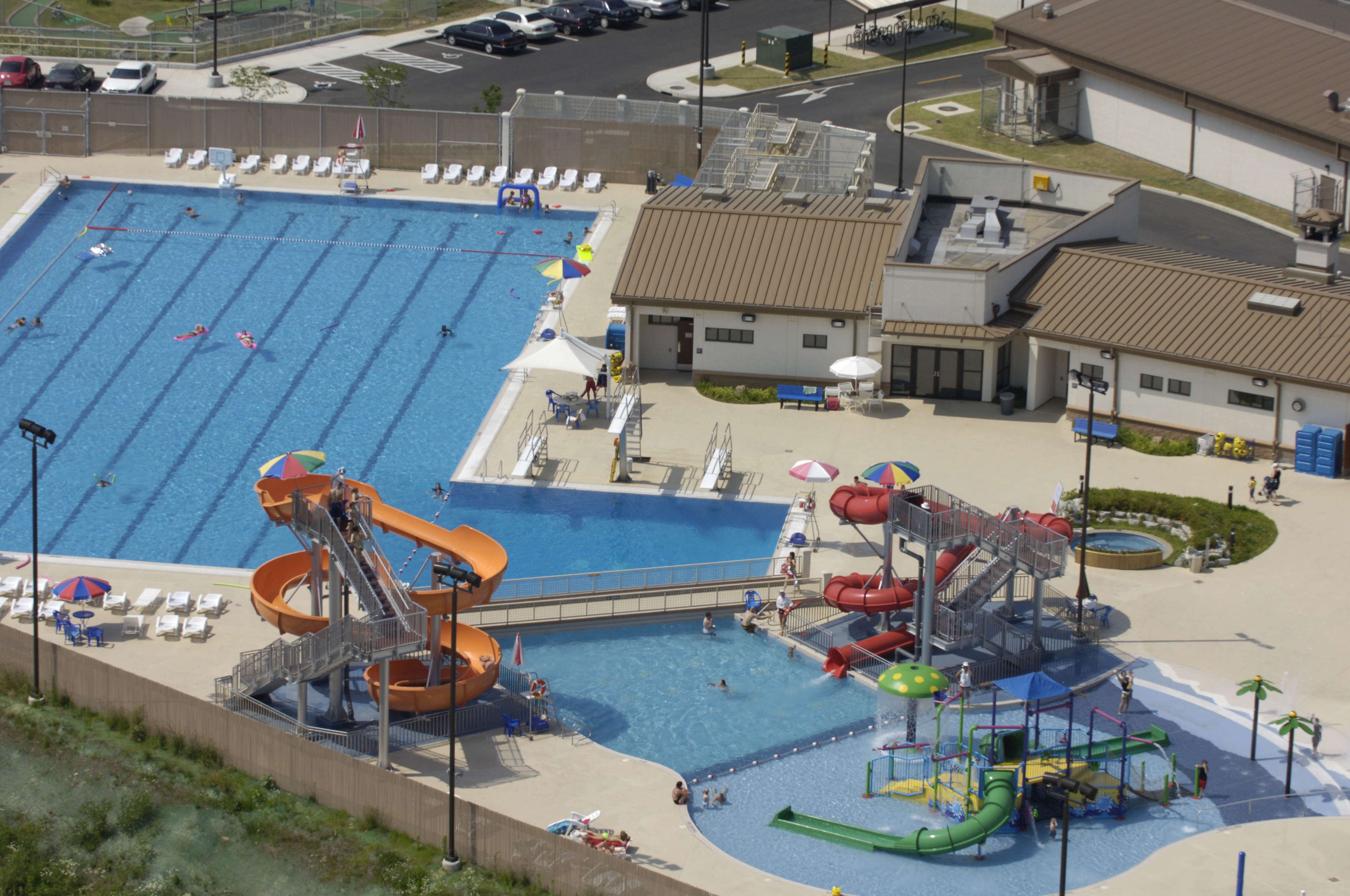 Construction on the "Splish and Splash" water park at Camp Humphreys was completed in October, 2007. The water park serves the AreaIII U.S. military community the Republic of Korea. U.S. Army Garrison Humphreys official image archive